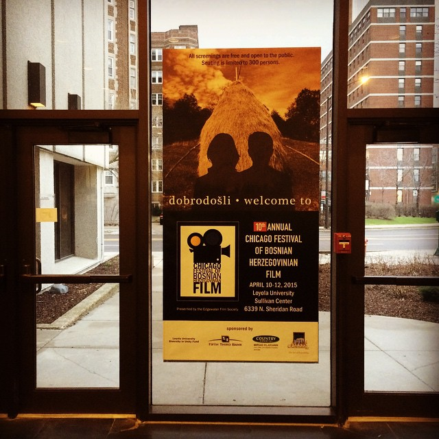 Dobrodoshli! Kickoff night for the Chicago festival of Bosnian herzegovinian film at Loyola university. Sullivan hall. Free. Tomorrow's programming looks excellent. You should join us. #amongwolvesfilm